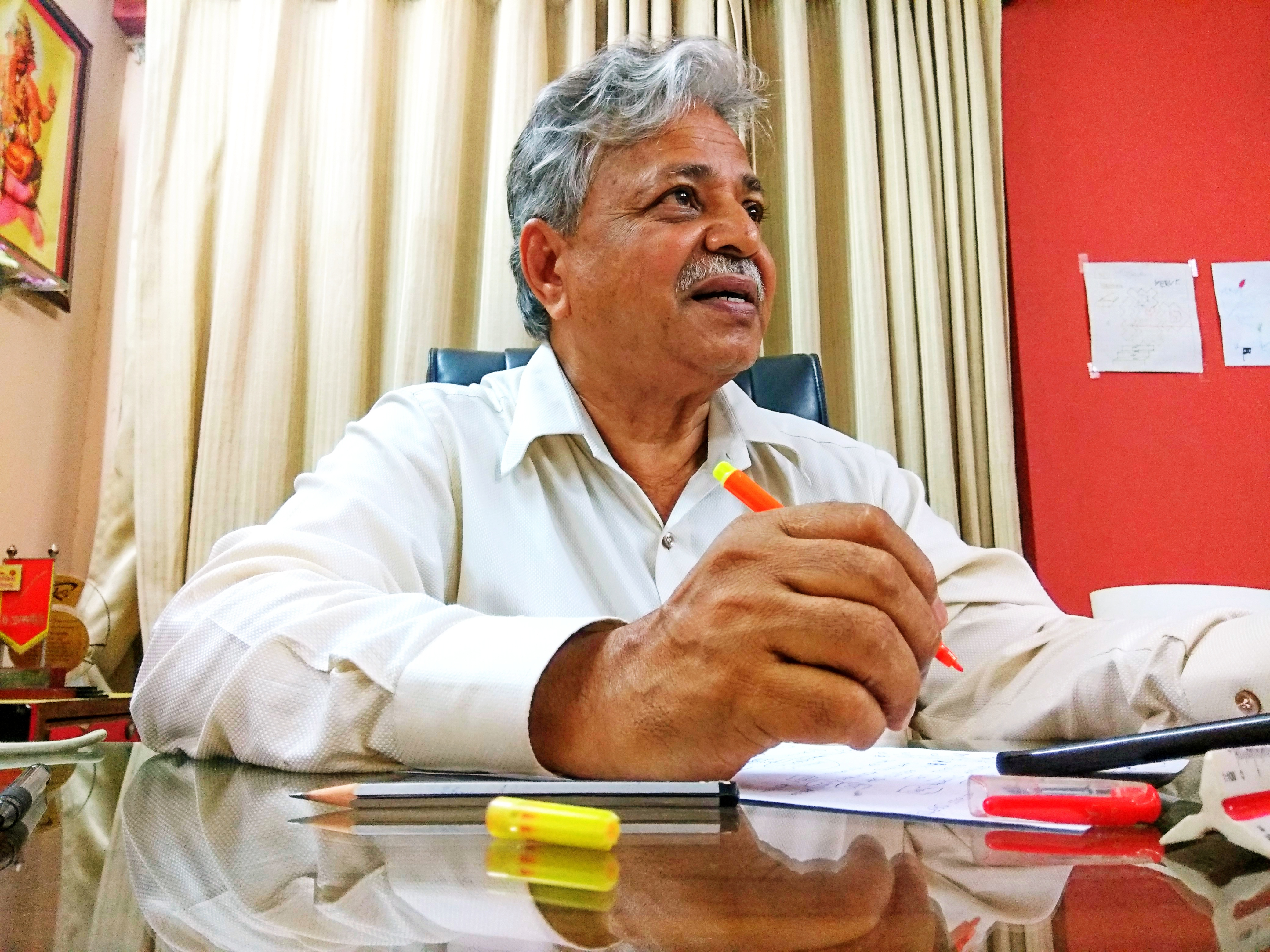 Nanasaheb Shendkar at the office